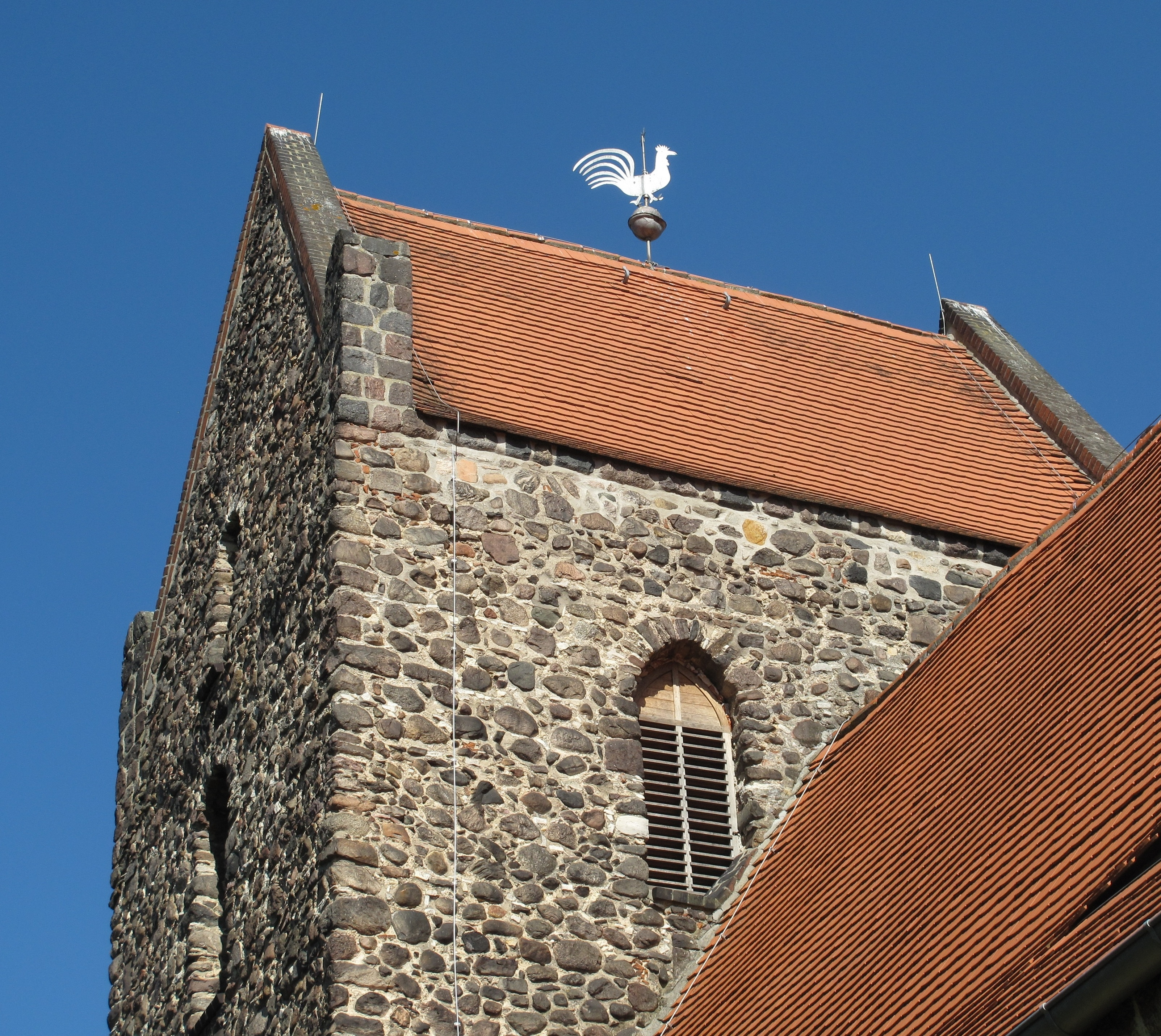 The Sankt-Annen-Kirche Zinndorf is a listed village and Fieldstone church in Zinndorf, a village of the municipality Rehfelde in the District Märkisch-Oderland, Brandenburg, Germany. The church was built in the 13th-century.